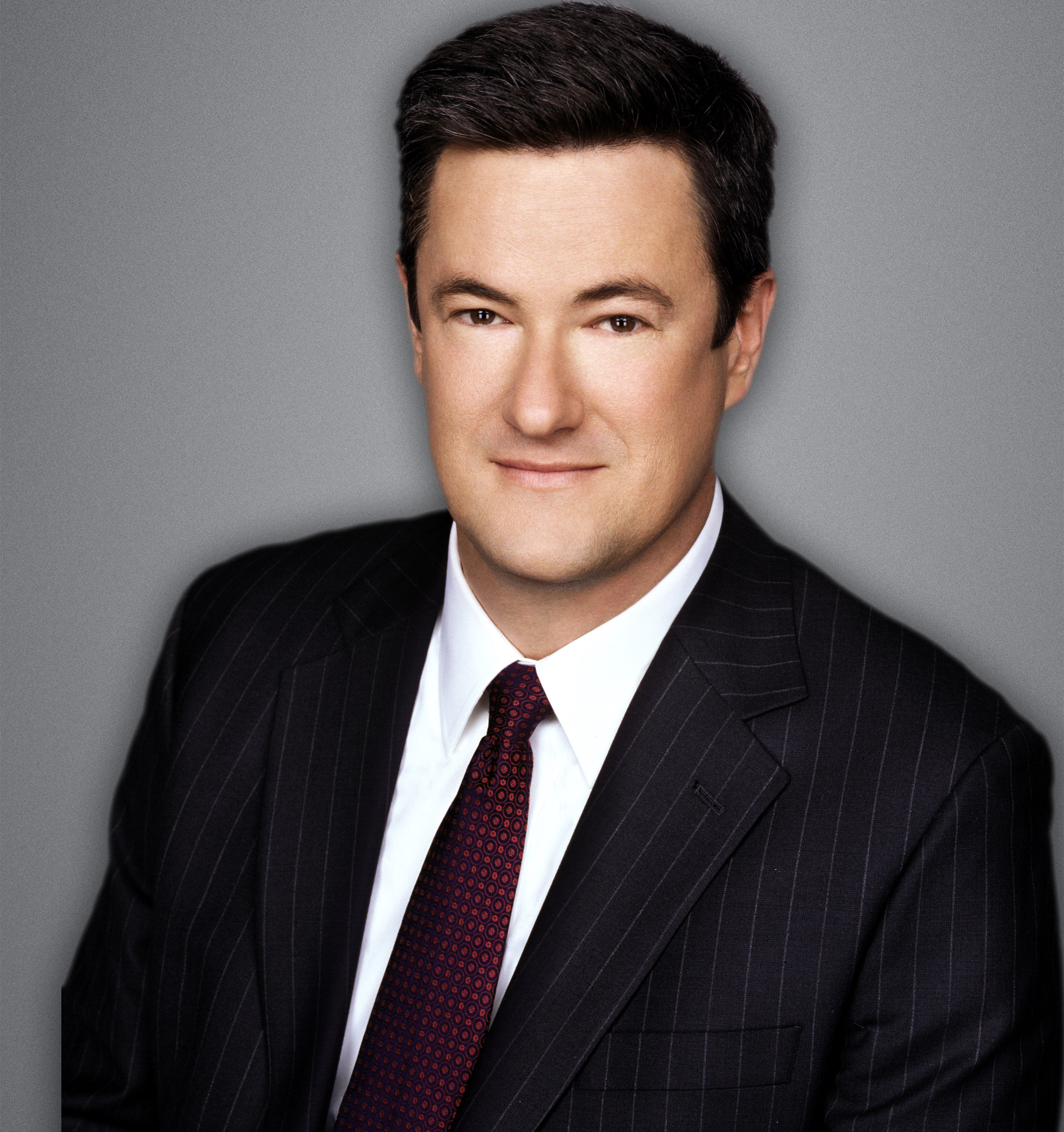 Joe Scarborough, member of the United States House of Representatives from Florida.